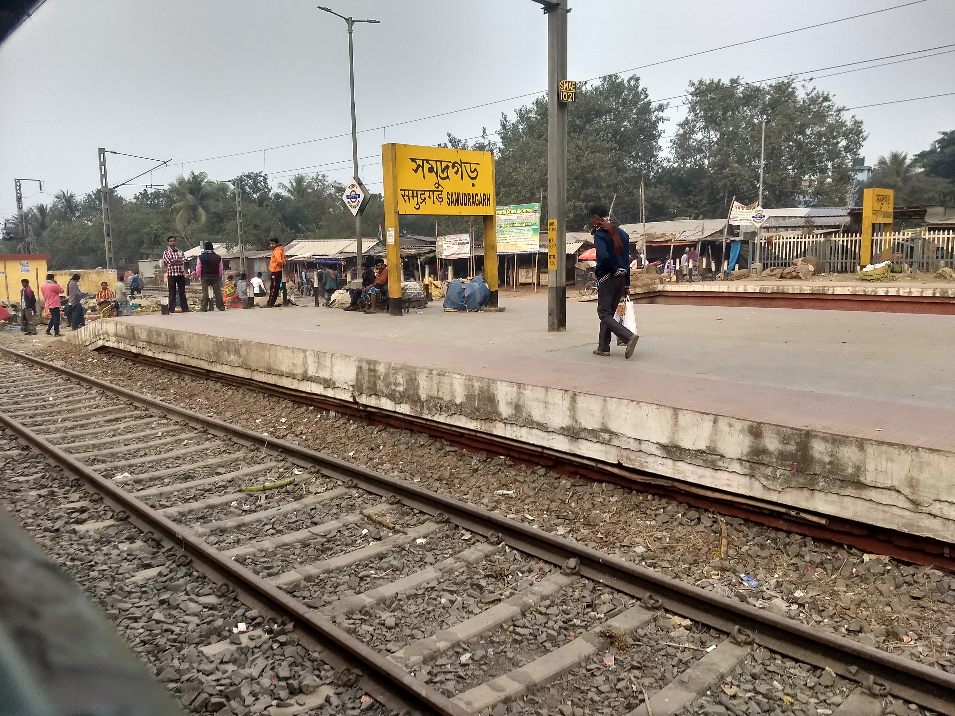 Samudragarh railway station